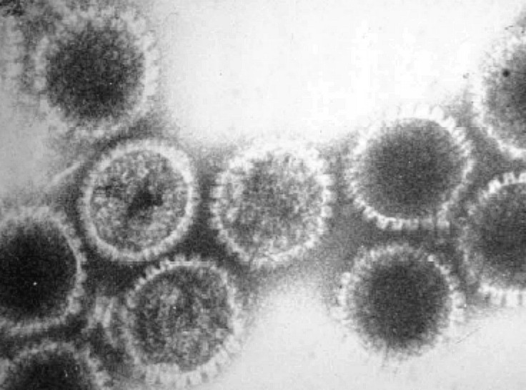 Electronmicrograph of Herpes virus.